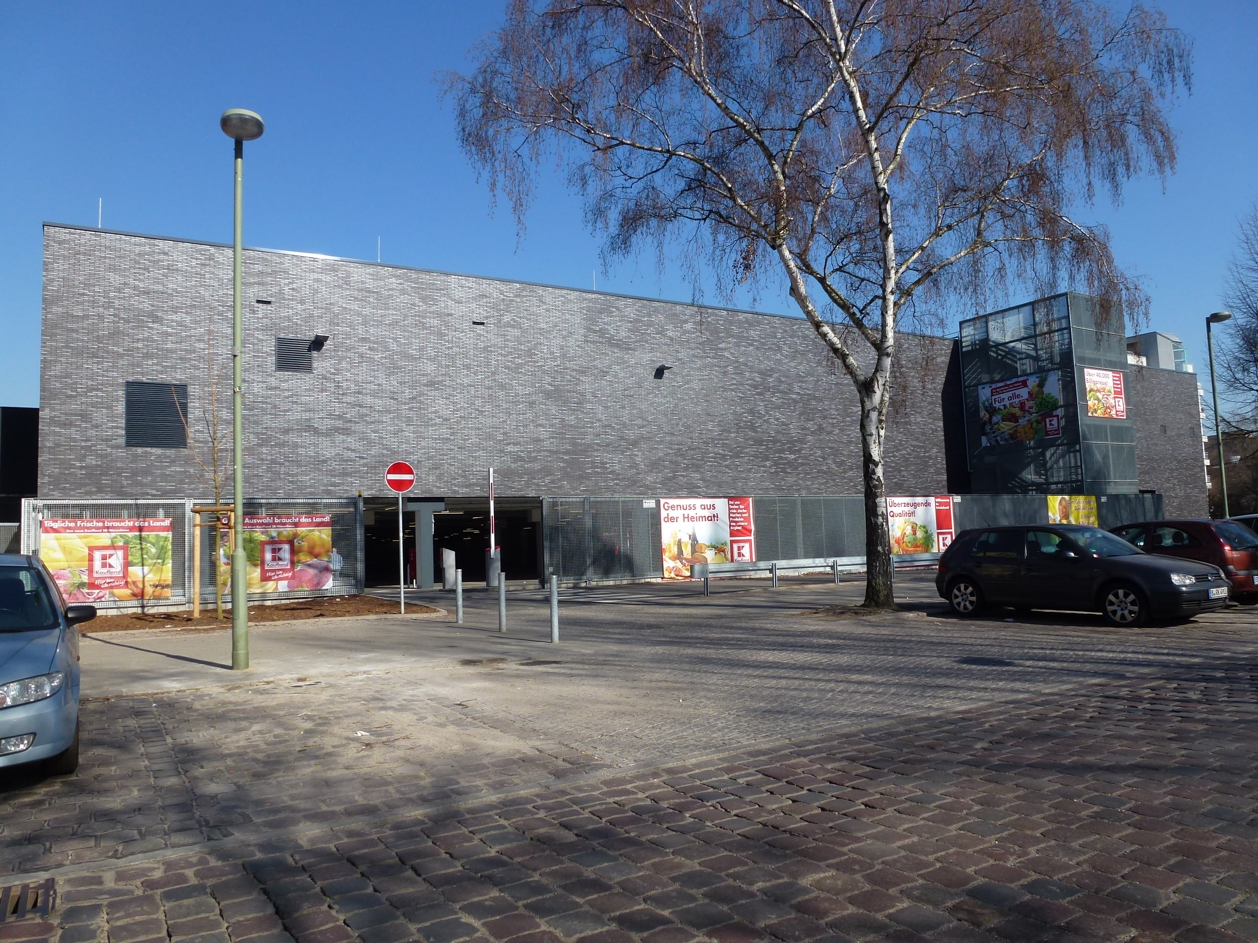 Berlin-Wedding Lüderitzstraße Müllerhalle